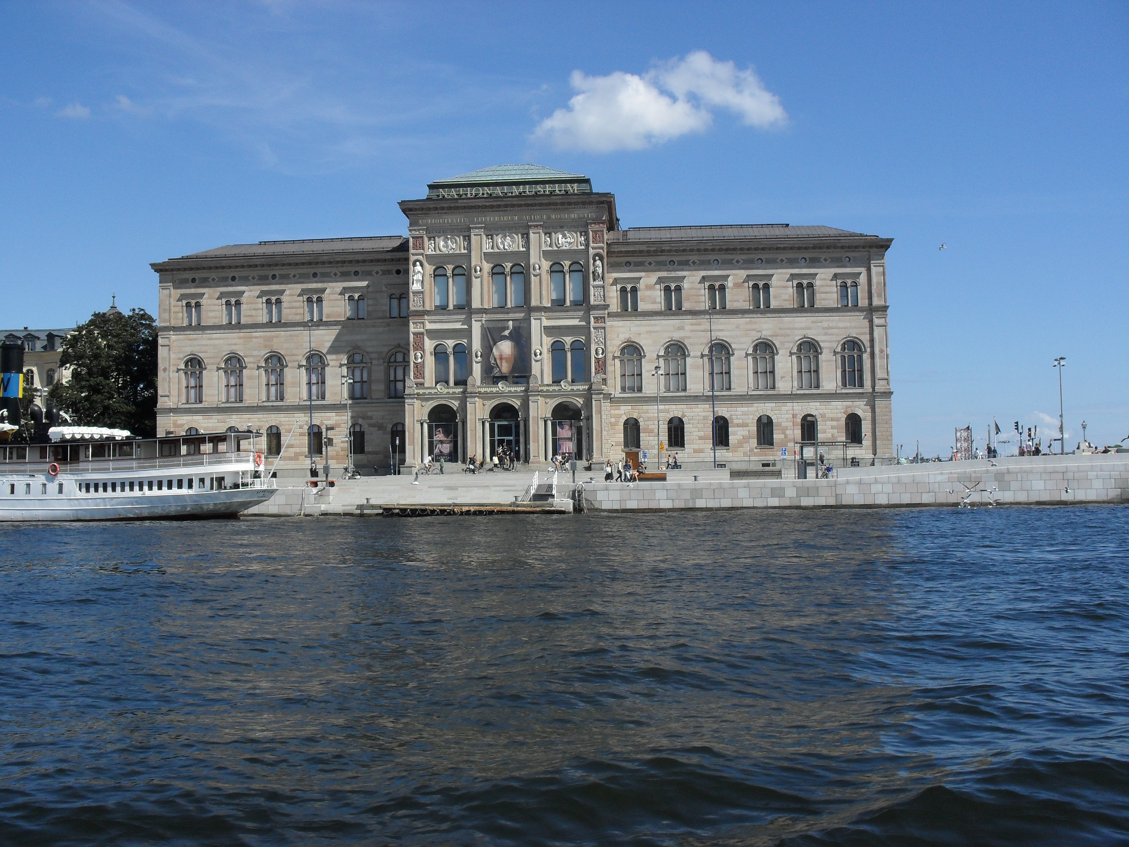 The leading art museum in Stockholm, the National Museum, Stockholm, Sweden.